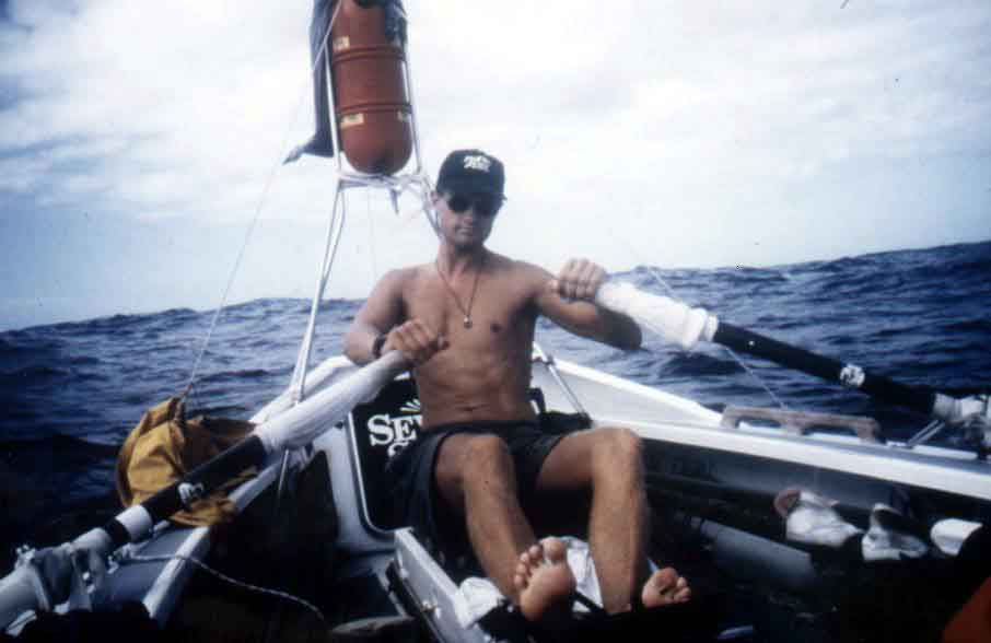 I am the author of this file. I freely post this on wikipedia. The file is already available on my website